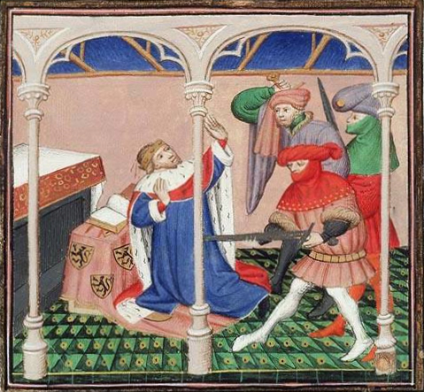 The death of the Emperor Henry V Contents: Vincent of Beauvais, Le Miroir Historial (Vol. IV). Translation from the Latin by Jean de Vignay Place of origin, date: Paris, Master of the Cité des Dames (illuminator); c. 1400-1410 Material: Vellum, ff. 401, 425x320 (254x196) mm, 43 lines, littera cursiva, Binding: 18th-century brown leather; gilt; with coat of arms of Stadholder William V Decoration: 1 two-column miniature (185x200 mm); 19 column miniatures (110/70x90/85 mm); decorated initials with border decoration (ff. 3r, 10r, 15r, 19r, 20r, etc.) Added: 1 illustration in the margin (coat of arms) Provenance: acquired before 1492 by Philip of Cleves (d. 1528; coat of arms with label; signature); purchased in 1531 from his estate by Henri III, Count of Nassau (d. 1538); by descent to the Princes of Orange-Nassau, the later Stadholders, at The Hague; carried off in 1795 toParis by the French and restituted to the KB in 1816 Annotation: Vol. I-III (now: Paris, Bibliothèque Nationale de France, fr. 308-311) were decorated but not illustrated in the early 15th century. Apparently separated from their fourth volume from the beginning, they were illustrated on behalf of a later owner, Louis de Gruuthuse,in the early 1450s